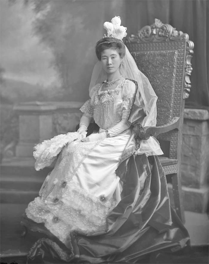 Viscountess Hayashi, later Countess Hayashi, née Misao Gamo (1858-1942). Photographed 17 March 1902